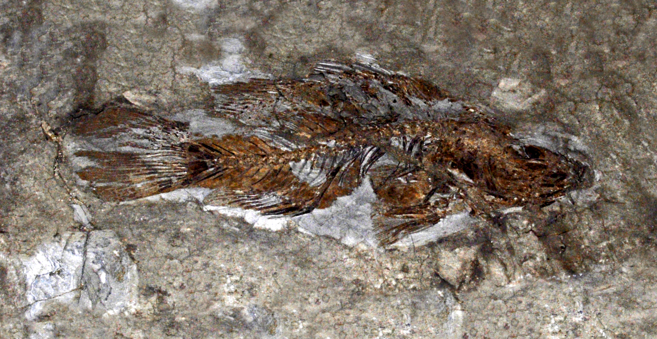 Fossil of Lates gibbus from Monte Bolca, on display at Museo Geologico G. Cappellini, Bologna